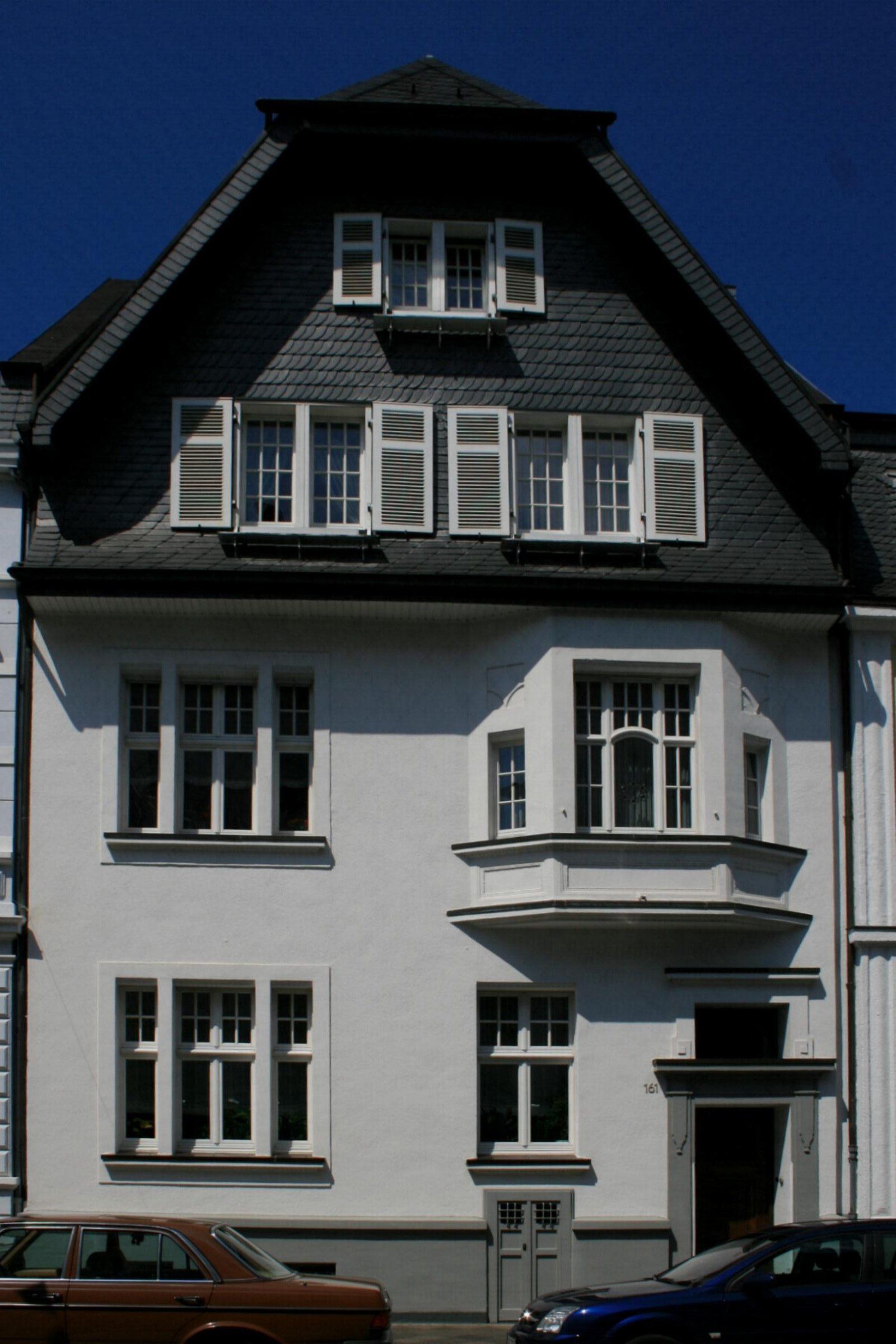 Cultural heritage monument No. K 073 in Mönchengladbach